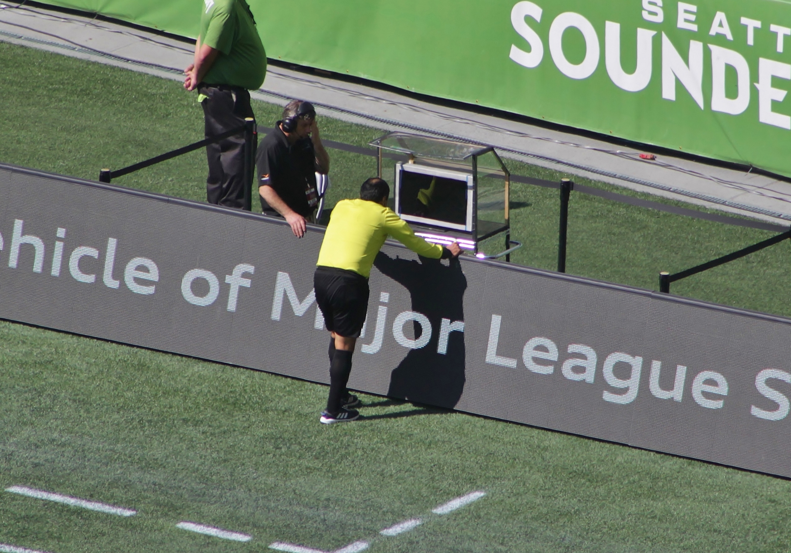 Referee Baldomero Toledo consults the video assistant referee during a Major League Soccer match between Seattle Sounders FC and Sporting Kansas City at CenturyLink Field. The review resulted in a red card for Sounders defender Chad Marshall.